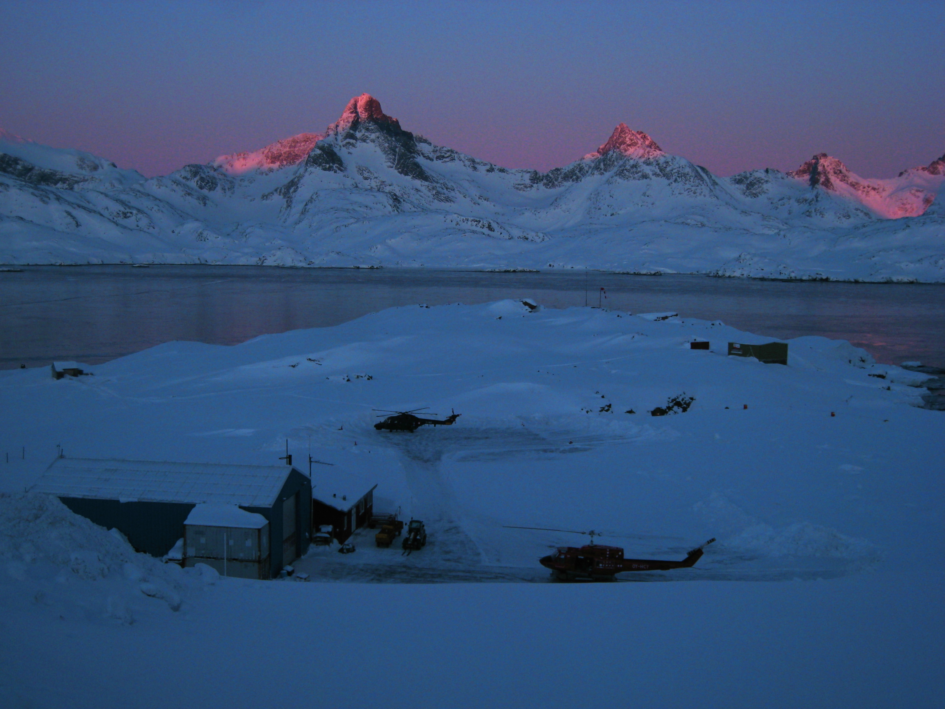 In the winter so the sun is low. Had to enhance the picture a bit.